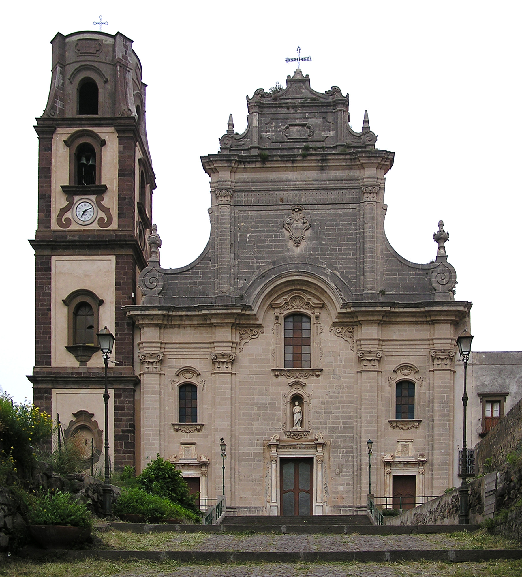 Lipari, cathedral 'San Bartolomeo' (protector of town and islands)